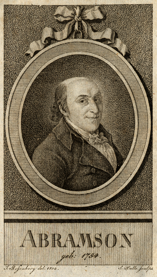 Portrait of Abraham Abramson (c.1753–1811), Prussian coiner and medallist.